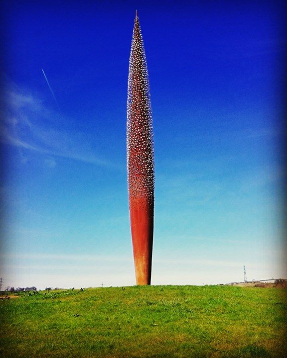 the Golden sculpture and surroundings in Tunstall, Stoke-on-Trent